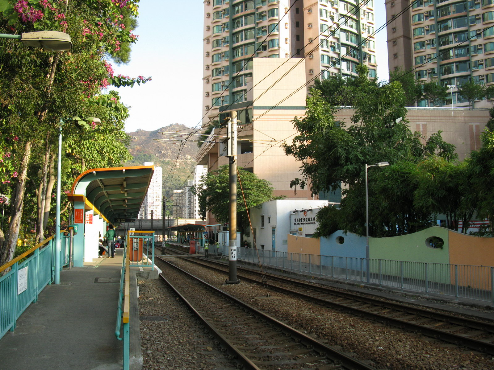 Ngan Wai Stop, Light Rail.中文（香港）: 輕鐵銀圍站。